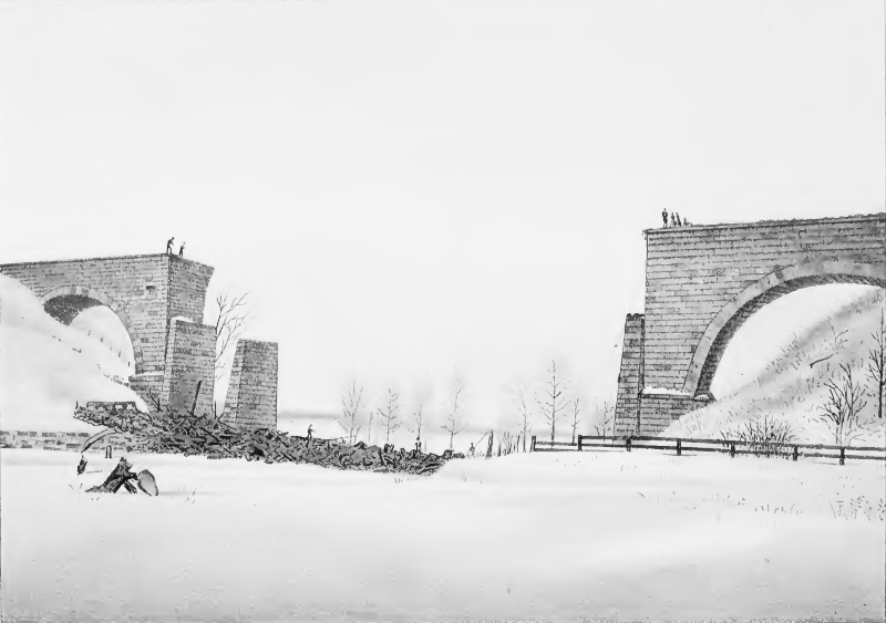 Drawing of the ruins of the collapsed Lake Shore and Southern Michigan Railroad bridge over the Ashtabula River at Ashtabula, Ohio, in the United States in January 1877.